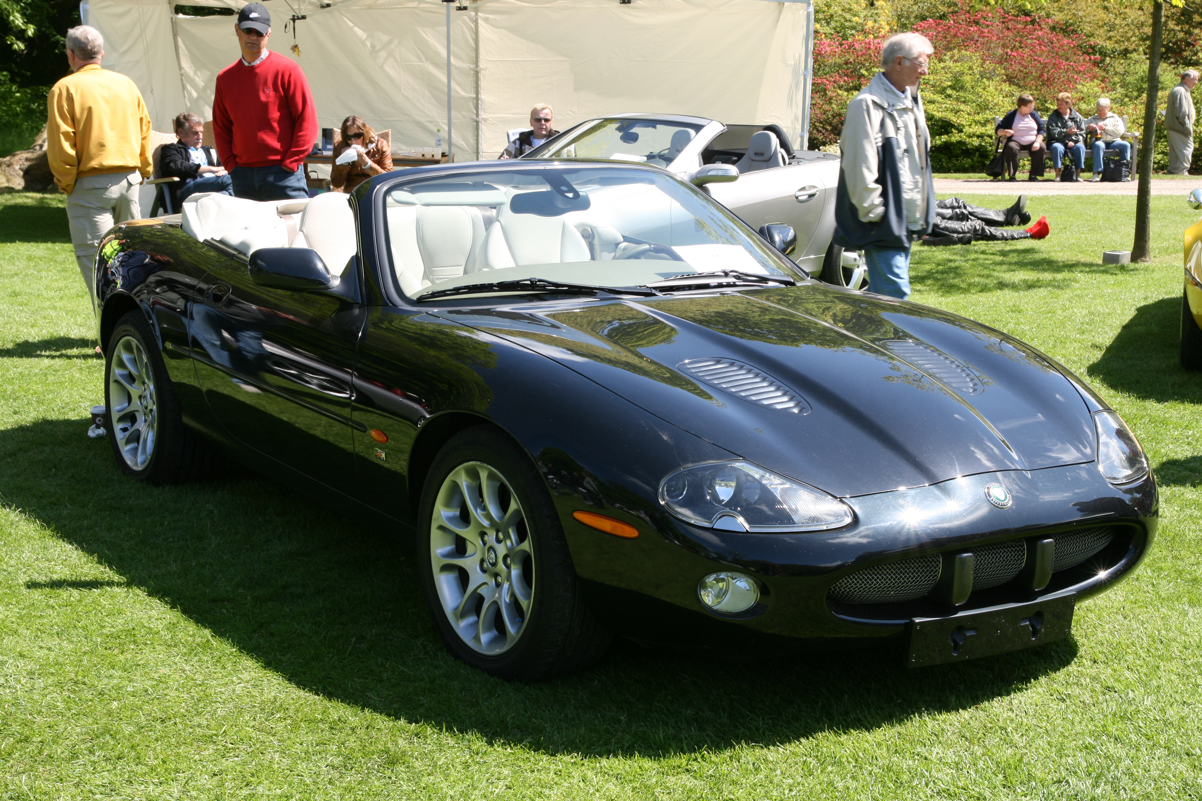 Front right view of a late-model Jaguar XKR Convertible (X100) parked at the Sofiero Classic car show at Sofiero castle in Helsingborg, Sweden.